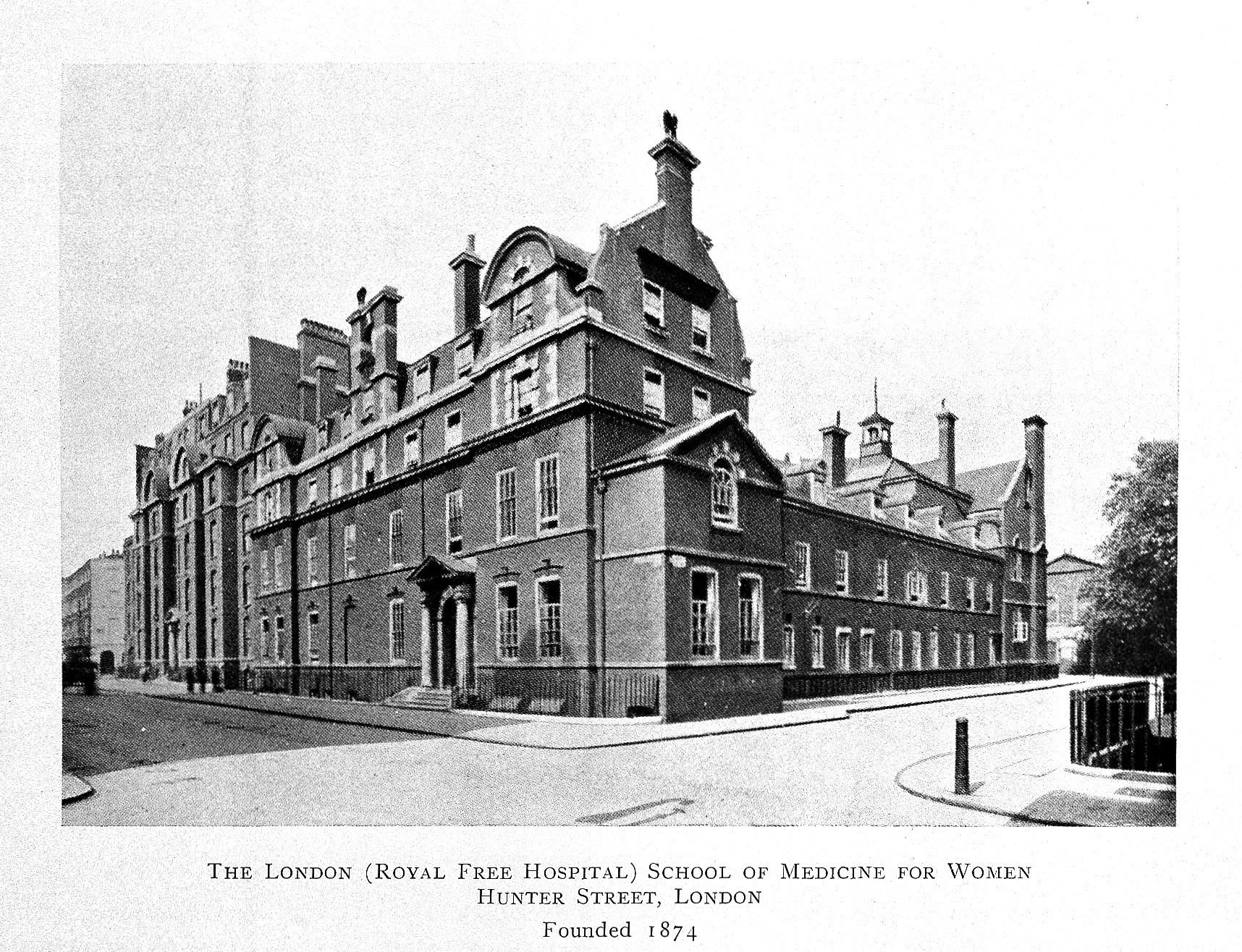 Photograph of the London (Royal Free Hospital) School of Medicine for Women, Hunter Street, London. founded 1874. General Collections Keywords: hospitals and institutions; london school of medicine; royal free hospital; women in medicine; George Allardice Riddell; Louisa Aldrich-Blake